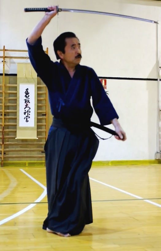 Otake Nobutoshi performed Zhengo Chidori No Tachi in Spain, 2012